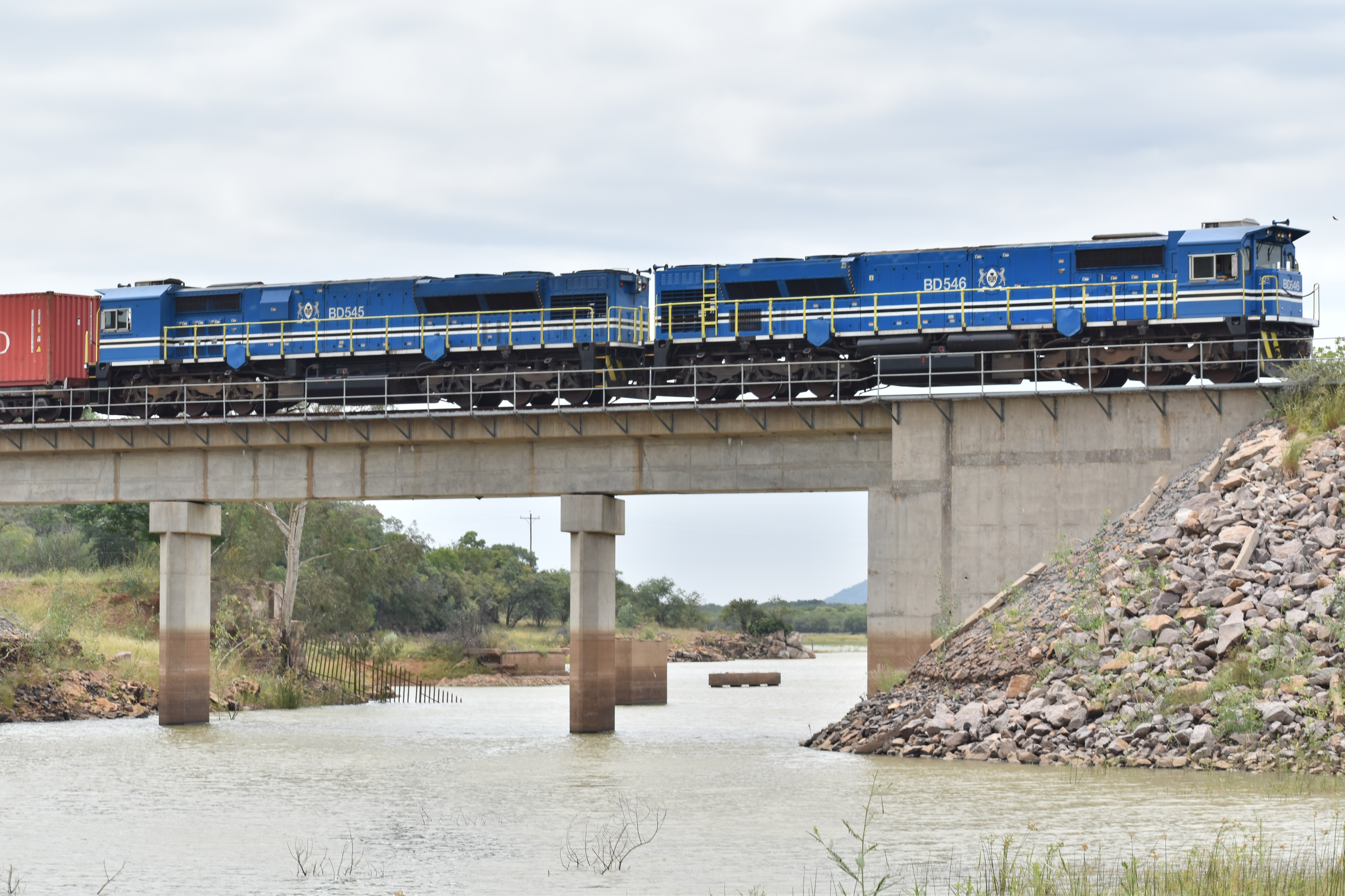 This is an image with the theme "Africa on the Move or Transport" from: Botswana